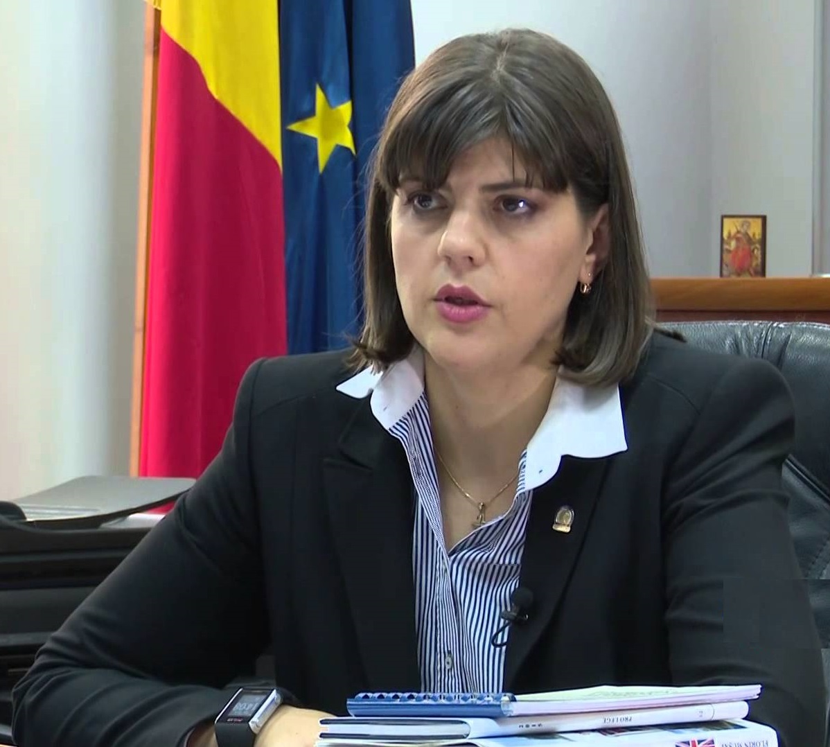 Laura Codruta Kövesi